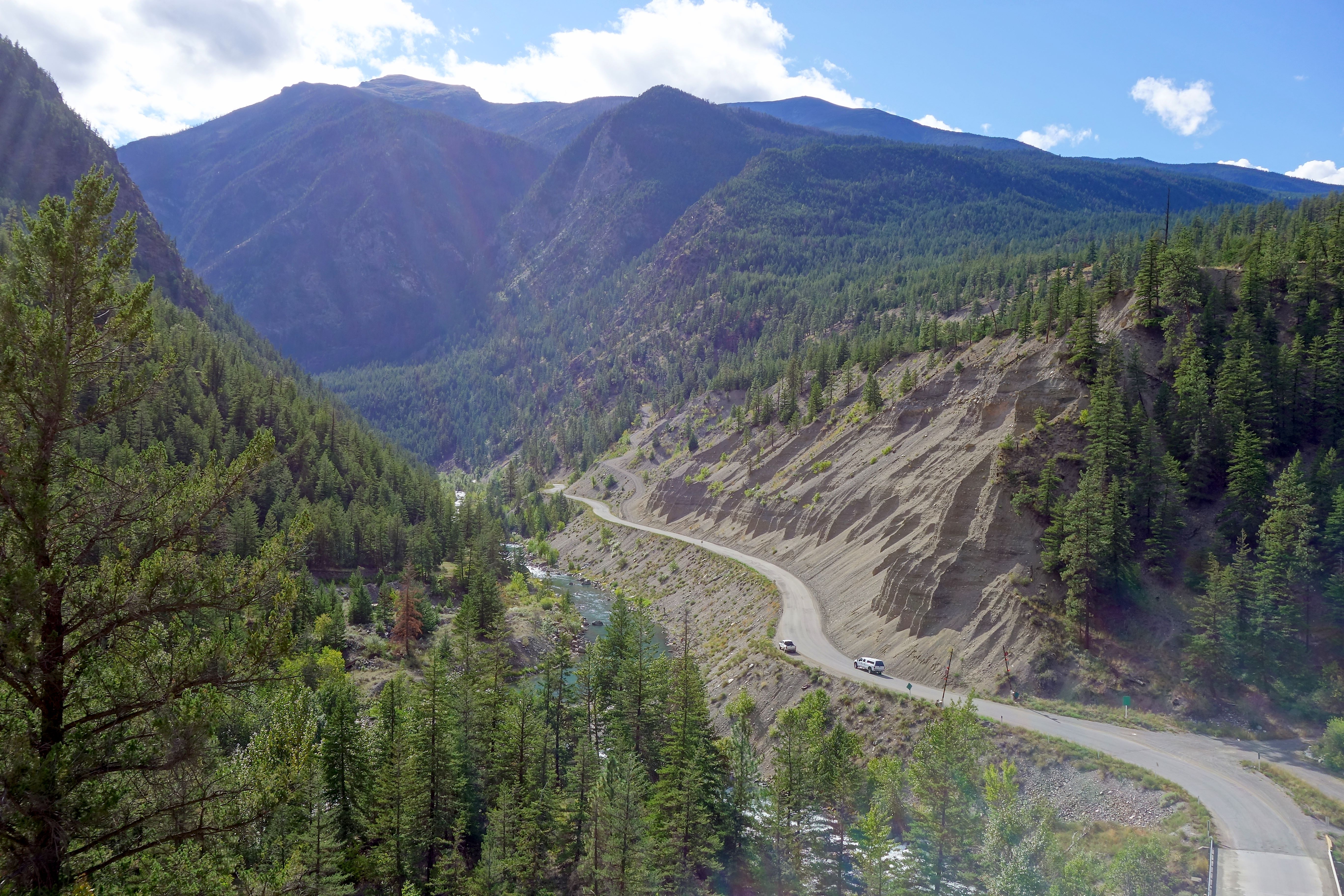 Dirt road to no man's land